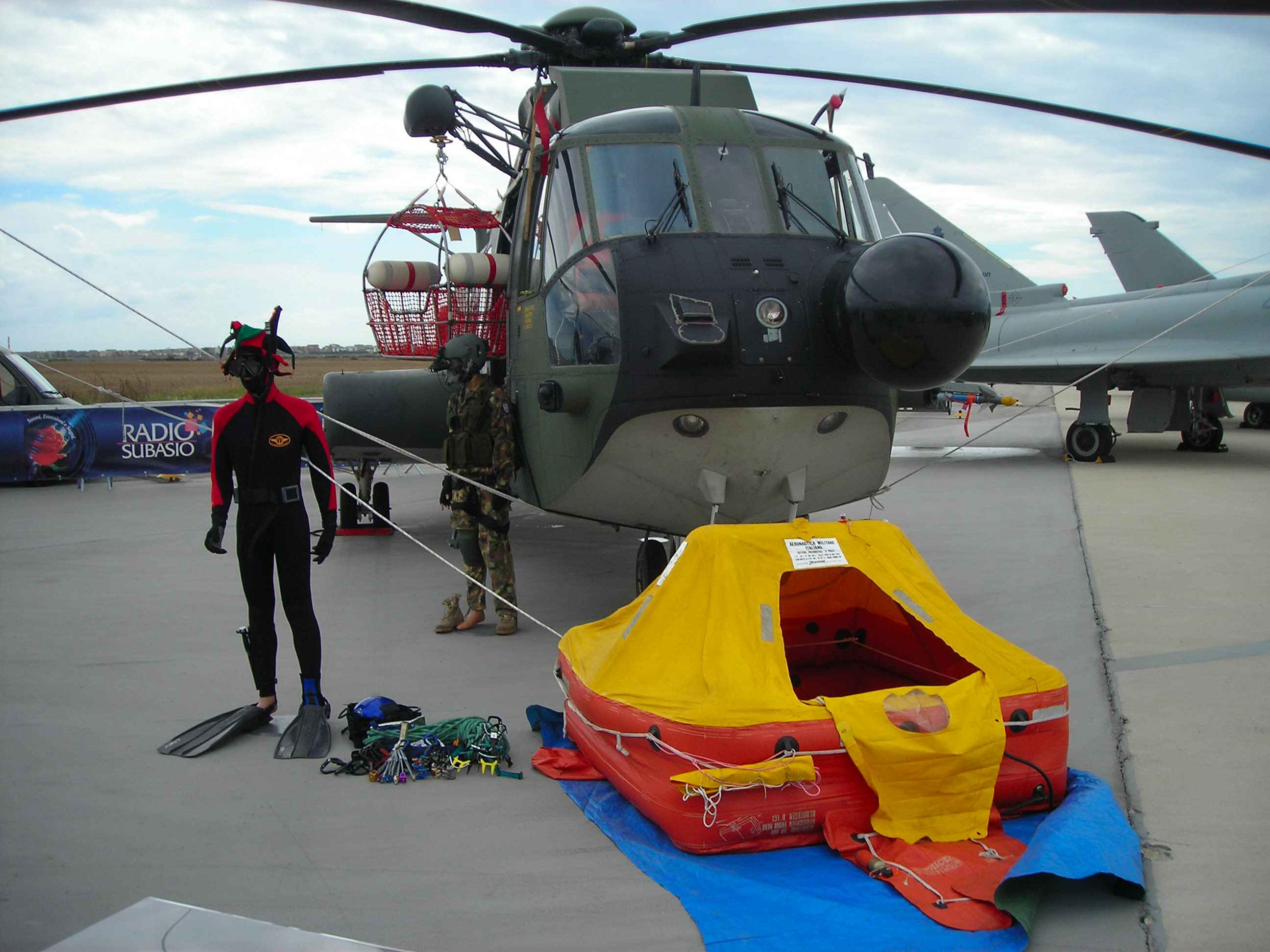 HH-3F of Italian Air Force with the equipment for sea reascue. Picture taken during "Giornata Azzurra" 2006 (Italian Air Force airshow) at Pratica di Mare AFB, Italy.